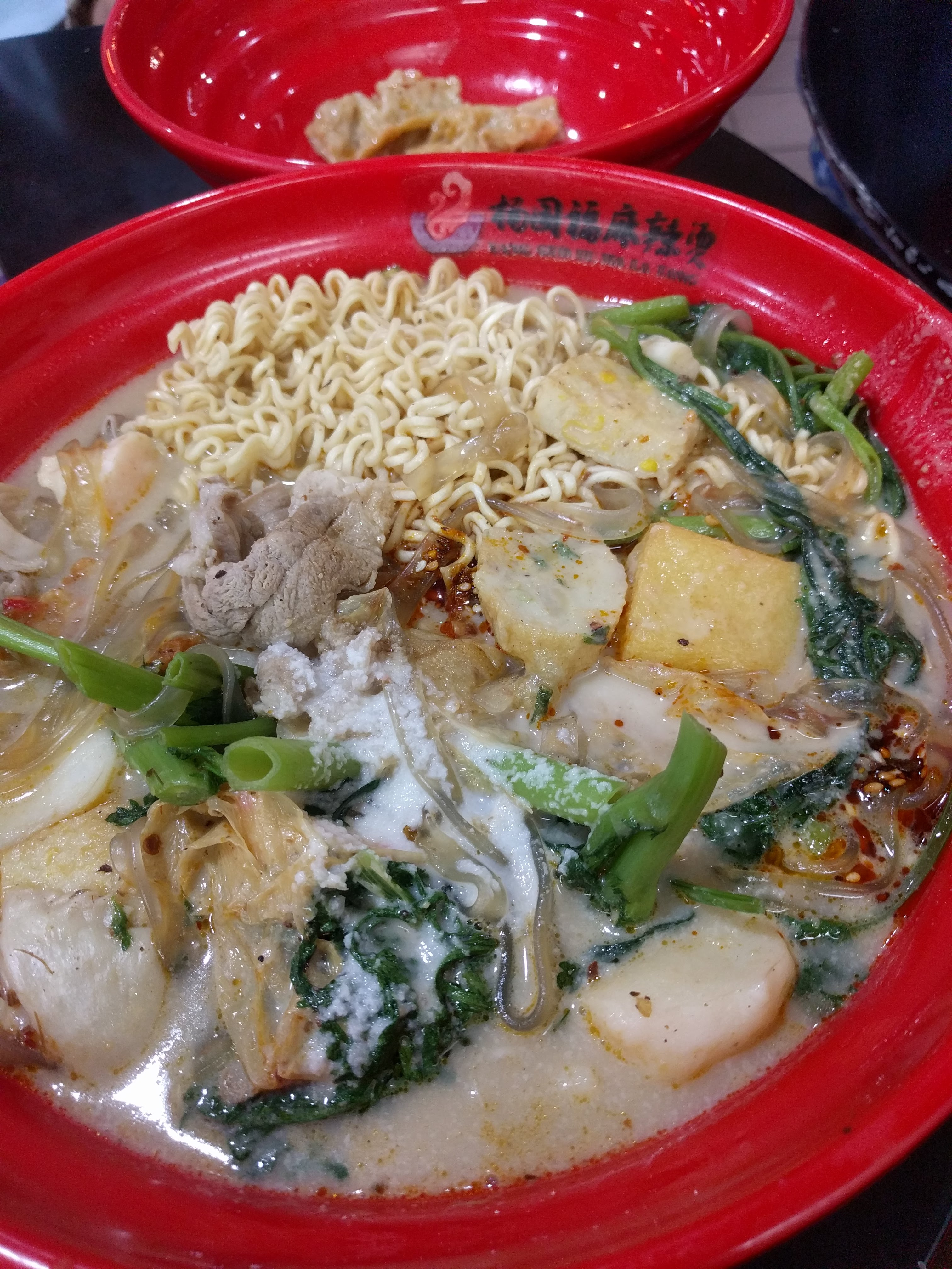 A ready bowl of malatang soup at Yang Guo Fu Ma La Tang (杨国福麻辣烫), Burwood, Sydney, Australia.